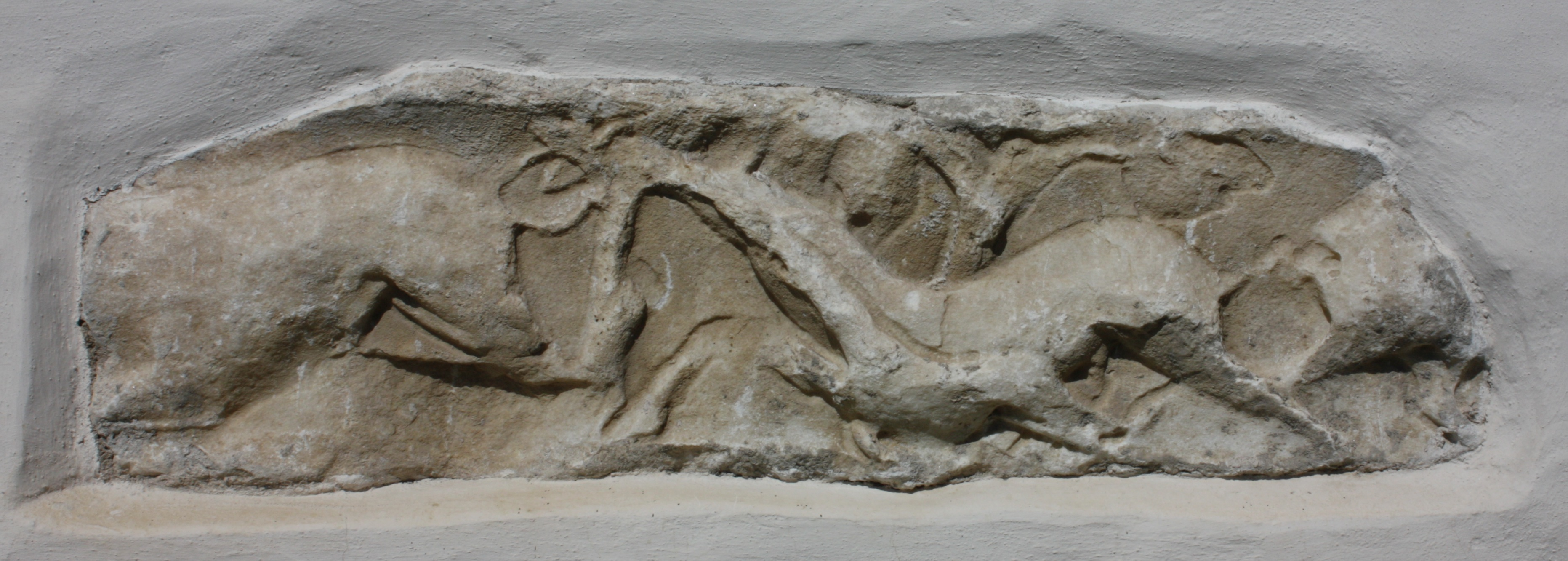 Subsidiary church Saint Laurentius - Roman stone Localtiy: Oberwollanig Community: Villach